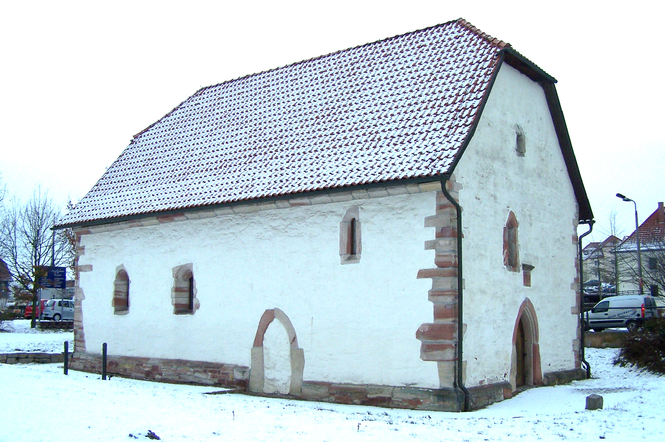 ST.Wendel in Bad Salzungen.